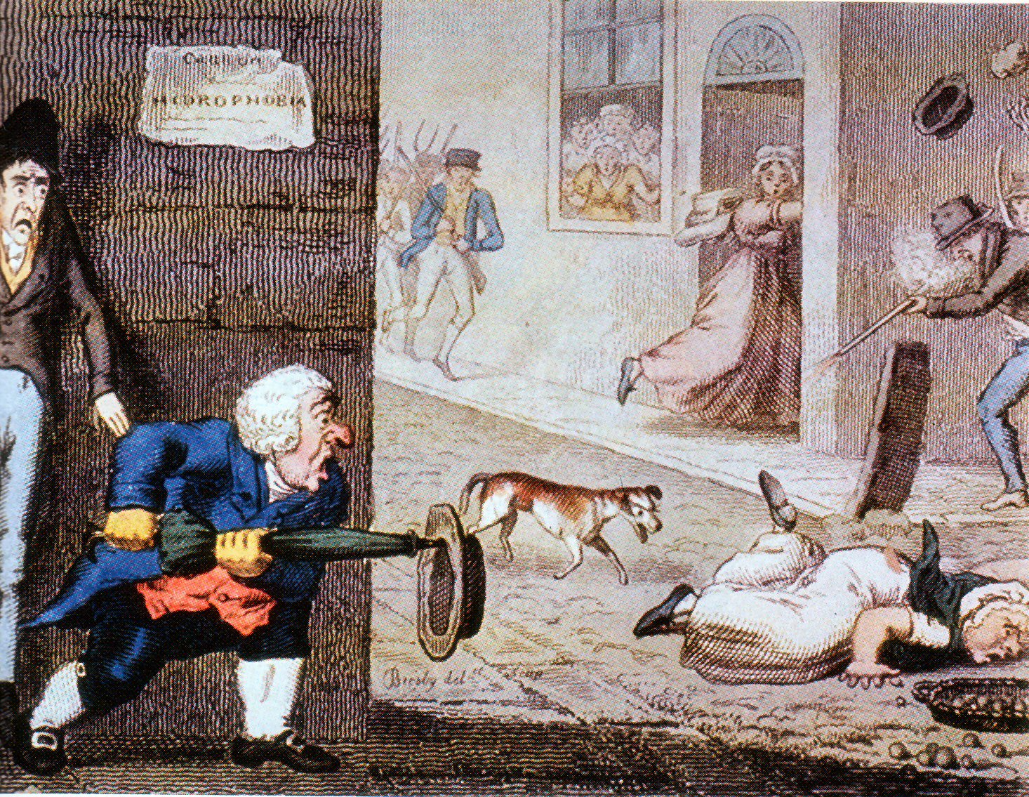 19th century cartoon of a rabid dog in a London street